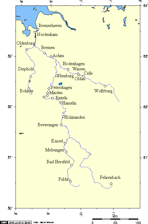 Watershed of the Weser River longitude and latitude 8.5701,53.5419, Bremerhaven 8.4750,53.4848, Nordenham 8.2193,53.1390, Oldenberg 8.8071,53.0750, Bremen 9.0255,53.0128, Achim 9.5835,52.7622, Hodenhagen 9.9099,52.6747, Winsen 9.9354,52.6526, Oldau 9.2147,52.6334, Nienburg 10.0808,52.6259, Celle 8.3697,52.6053, Diepholz 10.7893,52.4267, Wolfsburg 8.9648,52.3774, Petershagen 8.3141,52.3689, Bohmte 8.9224,52.2904, Minden 8.0808,52.2769, Osnabruck 8.9226,52.2395, Porta Westfalica 8.8041,52.2078, Bad Oeynhausen 9.0802,52.1878, Rinteln 9.3572,52.1040, Hamelin 9.4449,51.8277, Holzminden 9.3746,51.6682, Beverungen 9.5000,51.3000, Kassel 9.5410,51.1298, Melsungen 9.7072,50.8689, Bad Hersfeld 9.6743,50.5539, Fulda 10.9409,50.4983, Fehrenbach